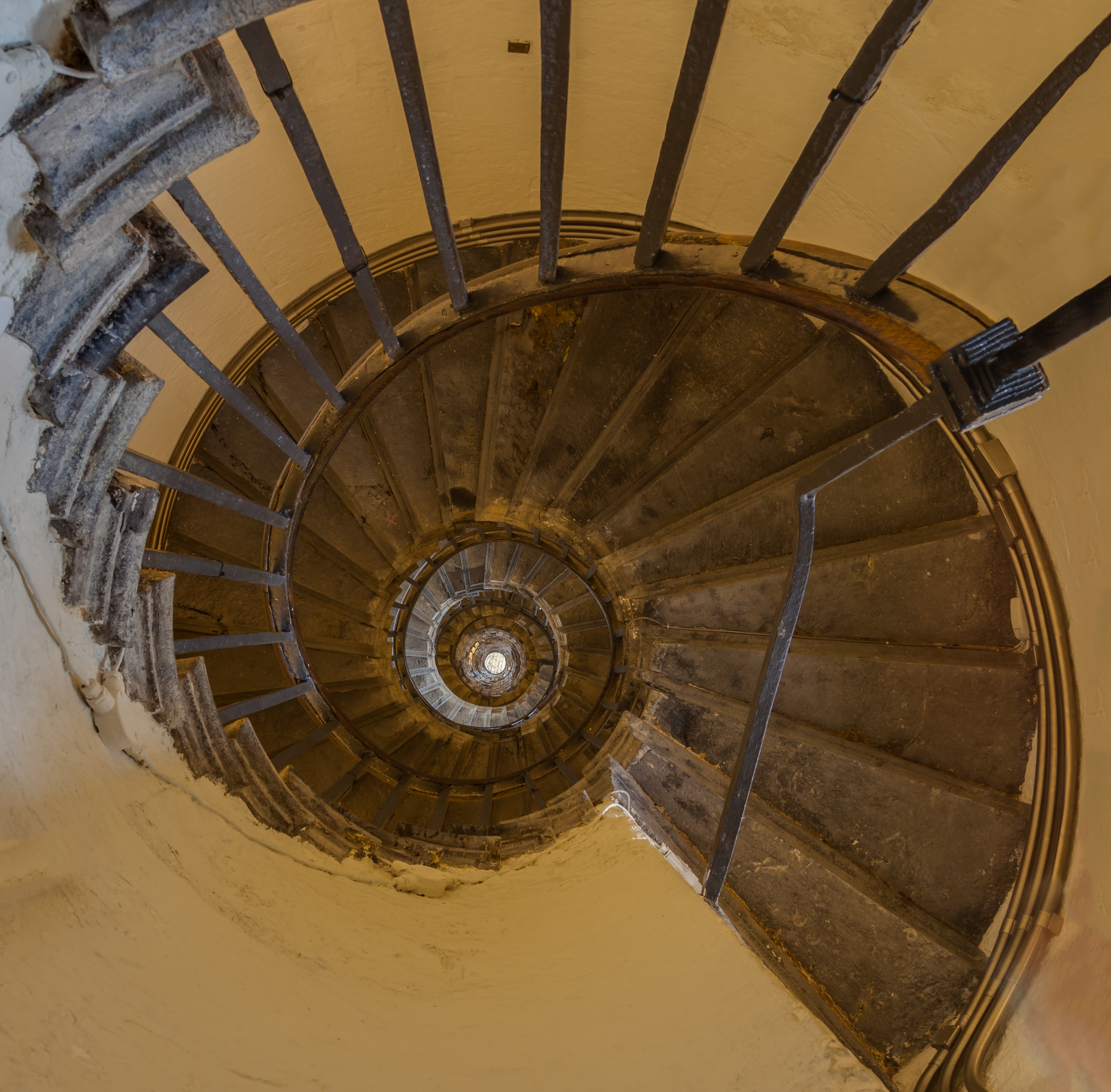 The Monument to the Great Fire of London, London, England